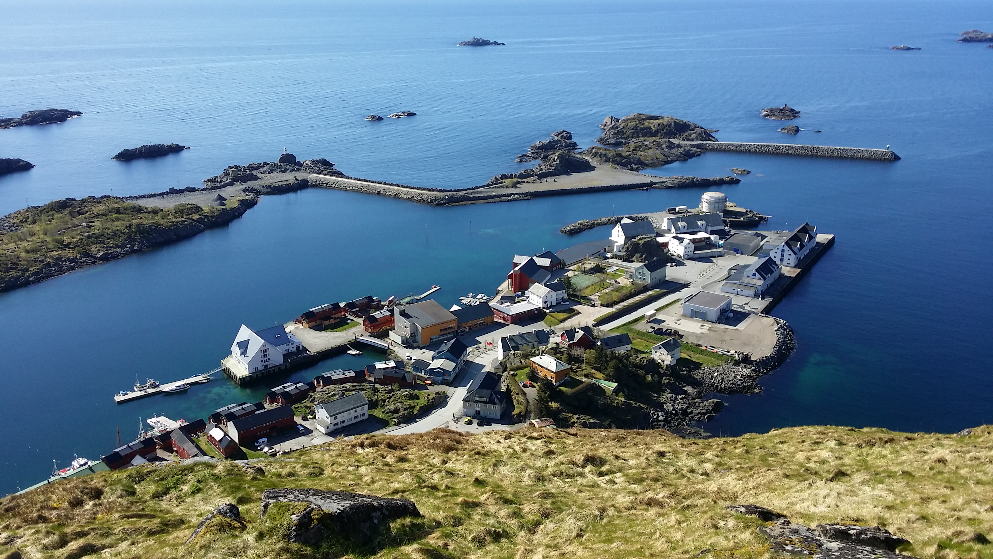 View from Kattberget, Stamsund with harbur.